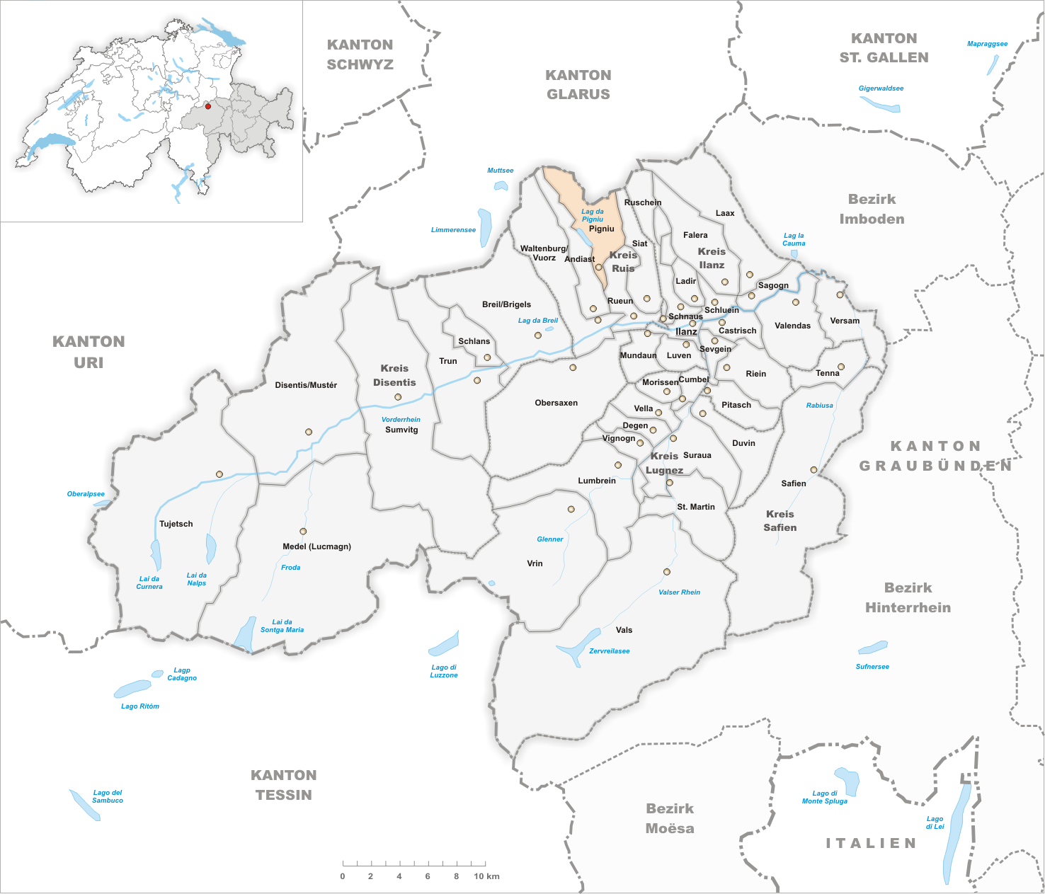 Municipality Pigniu